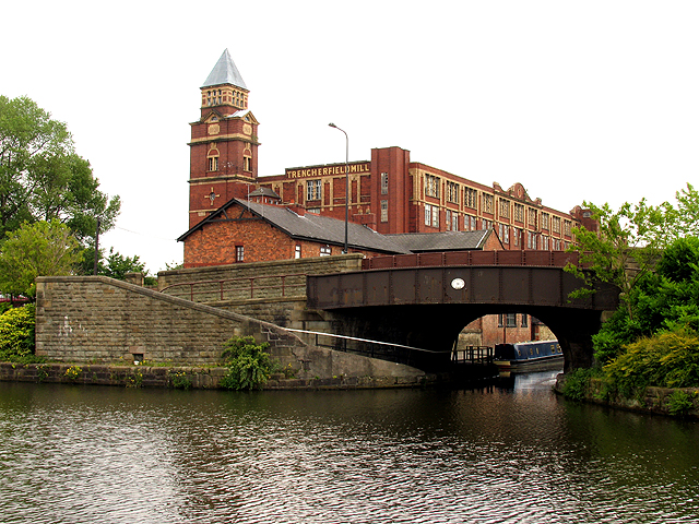 Trencherfield Mill: Wigan. This view of Pottery Bridge and the mill was taken from the pier.